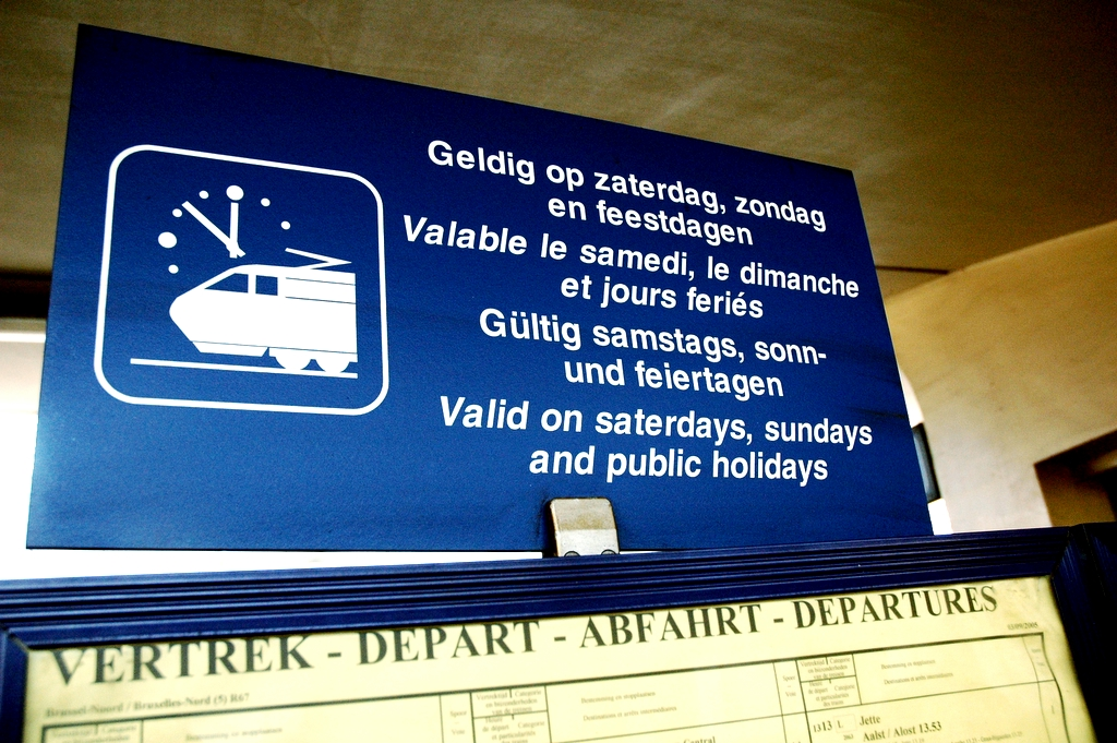 Signage in four languages in North station (Brussels); notice the spelling errors in English.